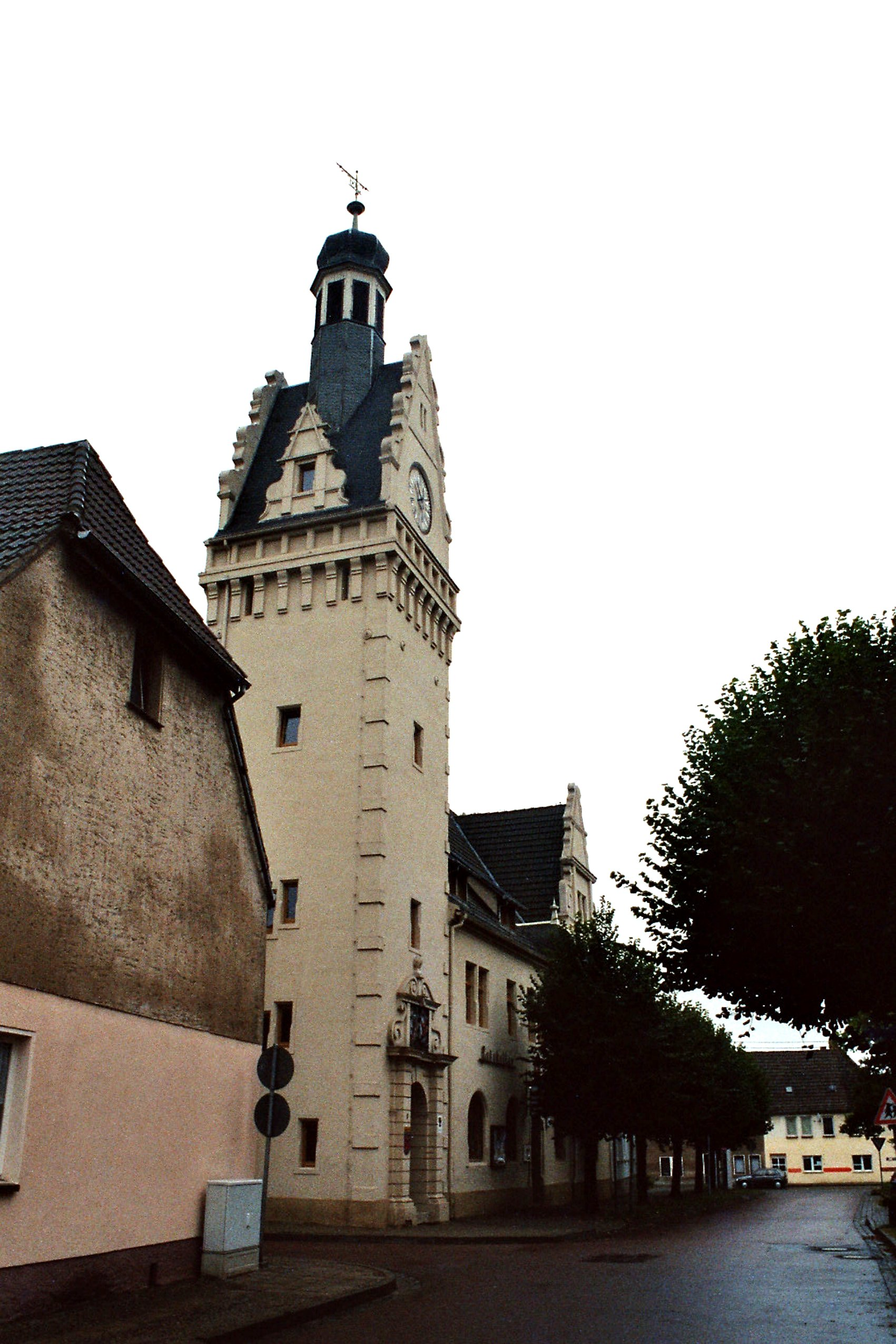 Güsten, the town hall This is a photograph of an architectural monument. 60120